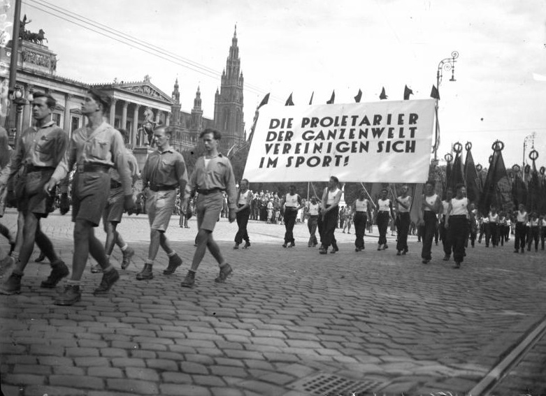 Opening march of the 1931 International Workers' Olympiads in Vienna, Austria.